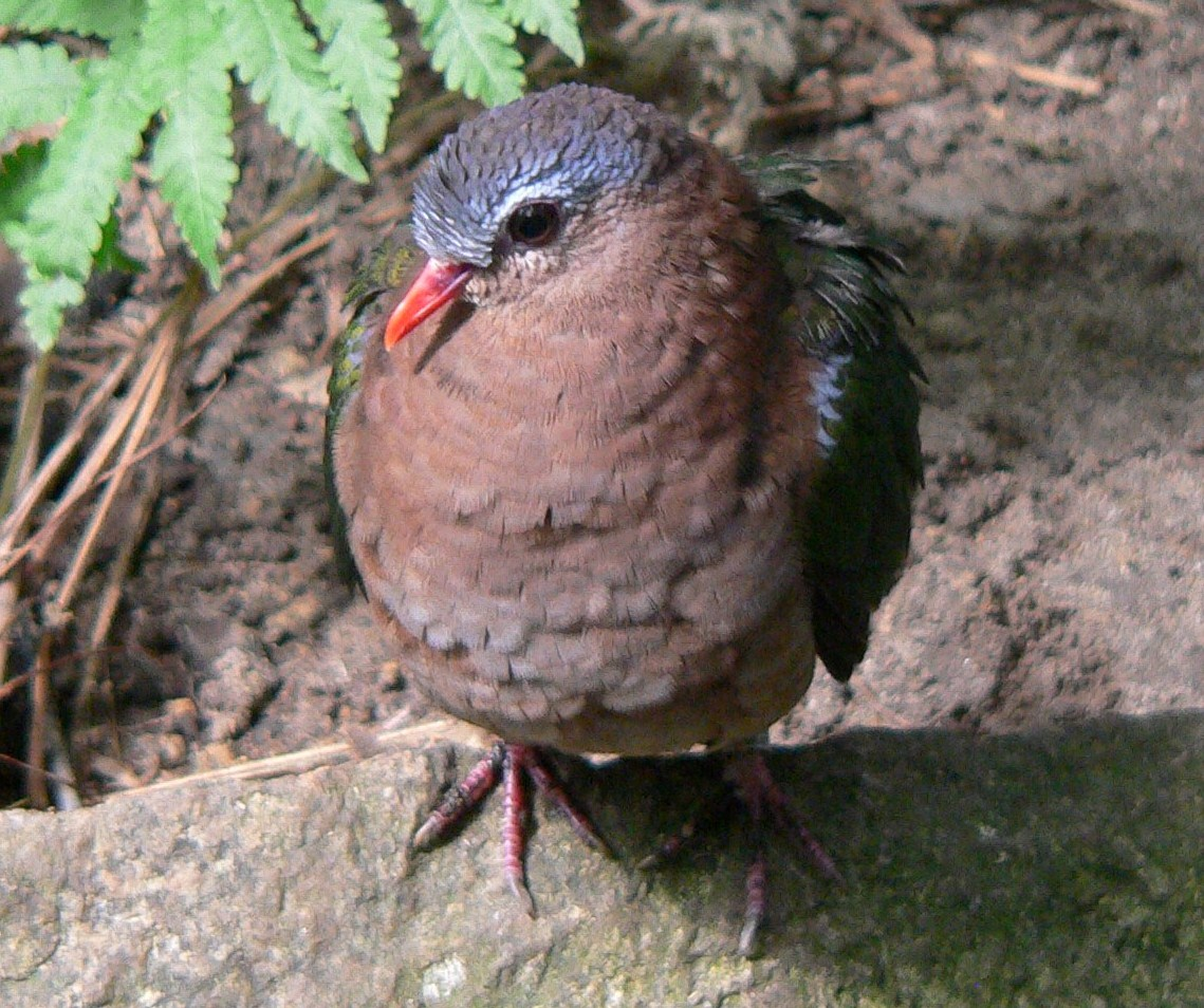 Chalcophaps indica